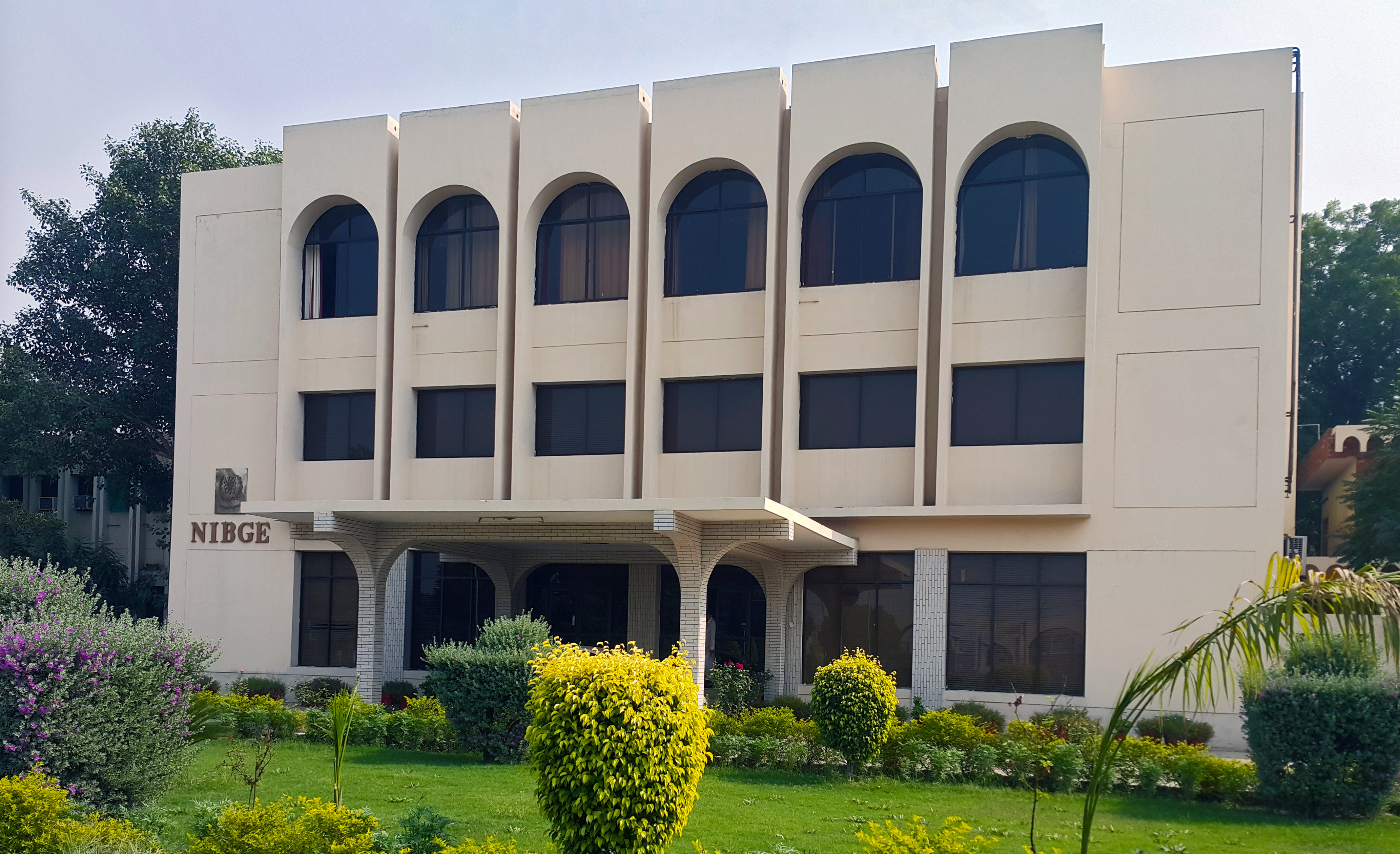 National Institute of Biotechnology And Genetics Engineering (NIBGE), Faislabad, Pakistan.